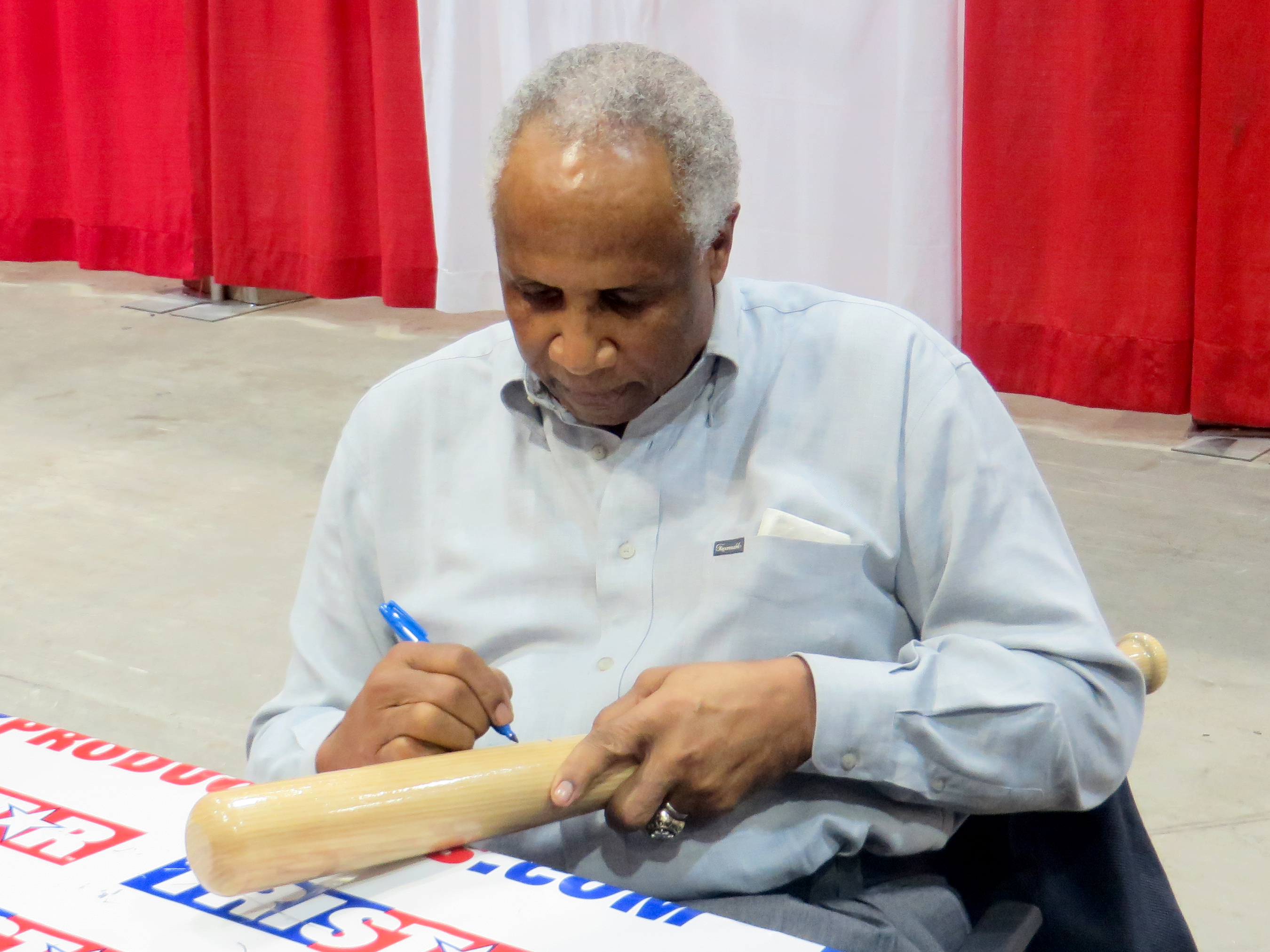 Hall of Fame baseball player Frank Robinson signs autographs at a Houston sports collectors show in January 2014.